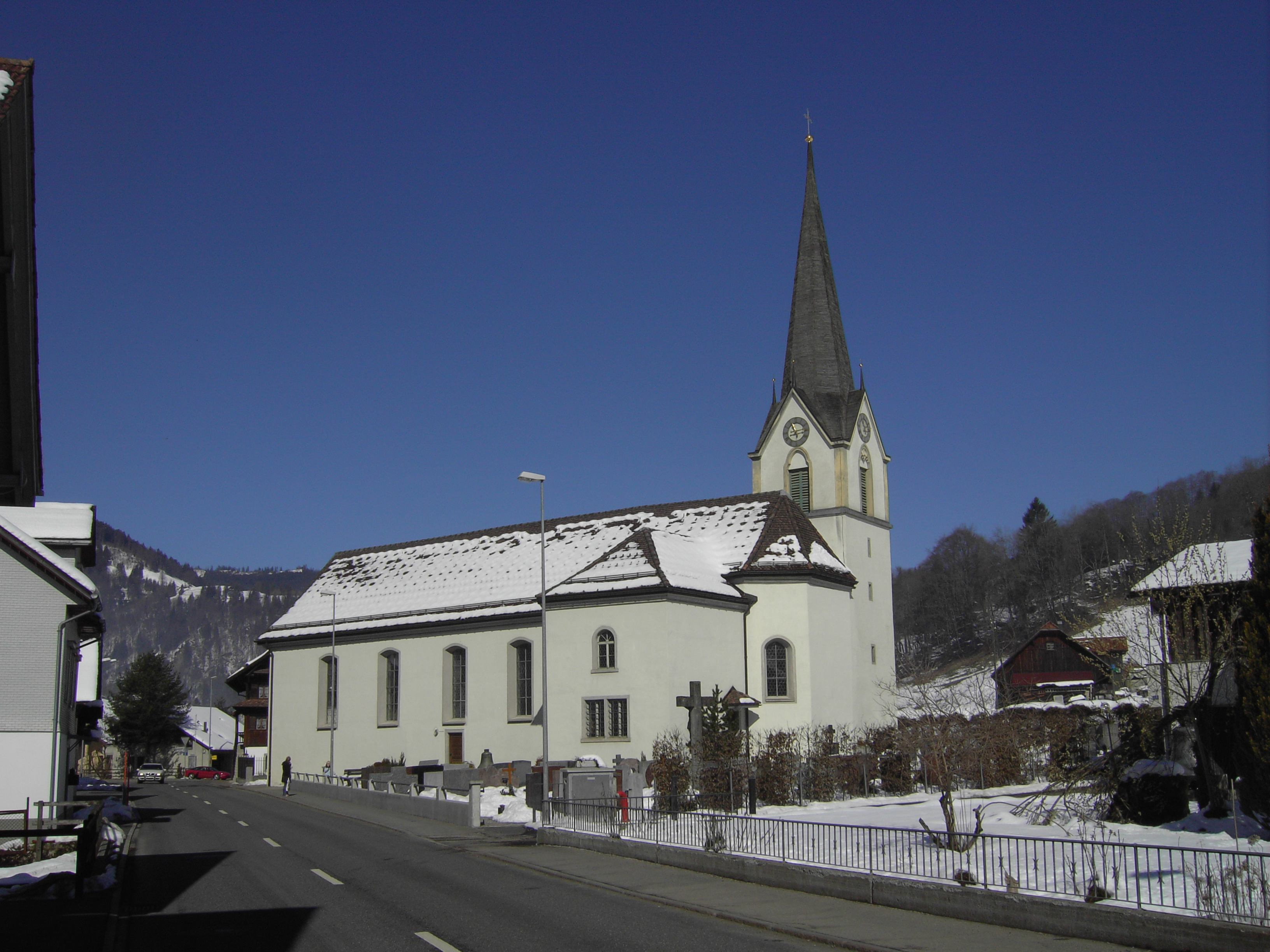 rom.-cath. Church in Vorderthal SZ in Switzerland